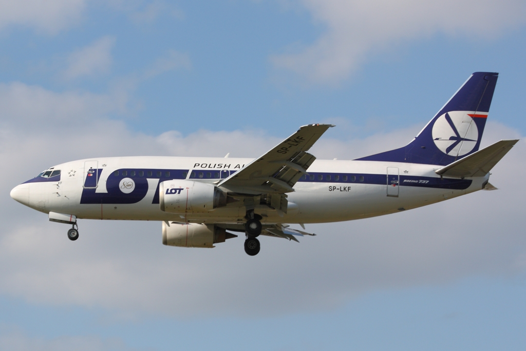 B737-55D of LOT, c/n 27368, her first flight was made on 08/04/1994 and she was then deliverd to LOT on 05/05/1994. LHR 17/08/09.